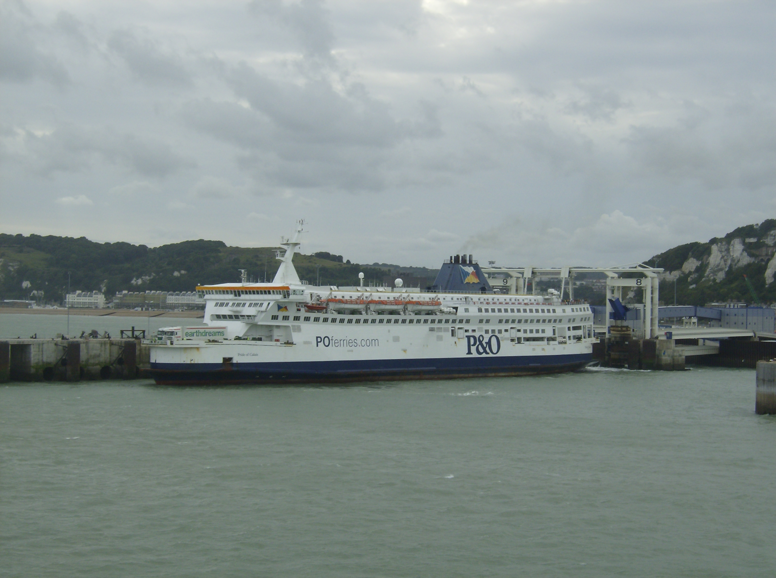 Pride of Calais setting sail from Dover IMO Number: 8517748 MMSI Number: 232001710 Callsign: GJLY Length: 170 m Beam: 28 m